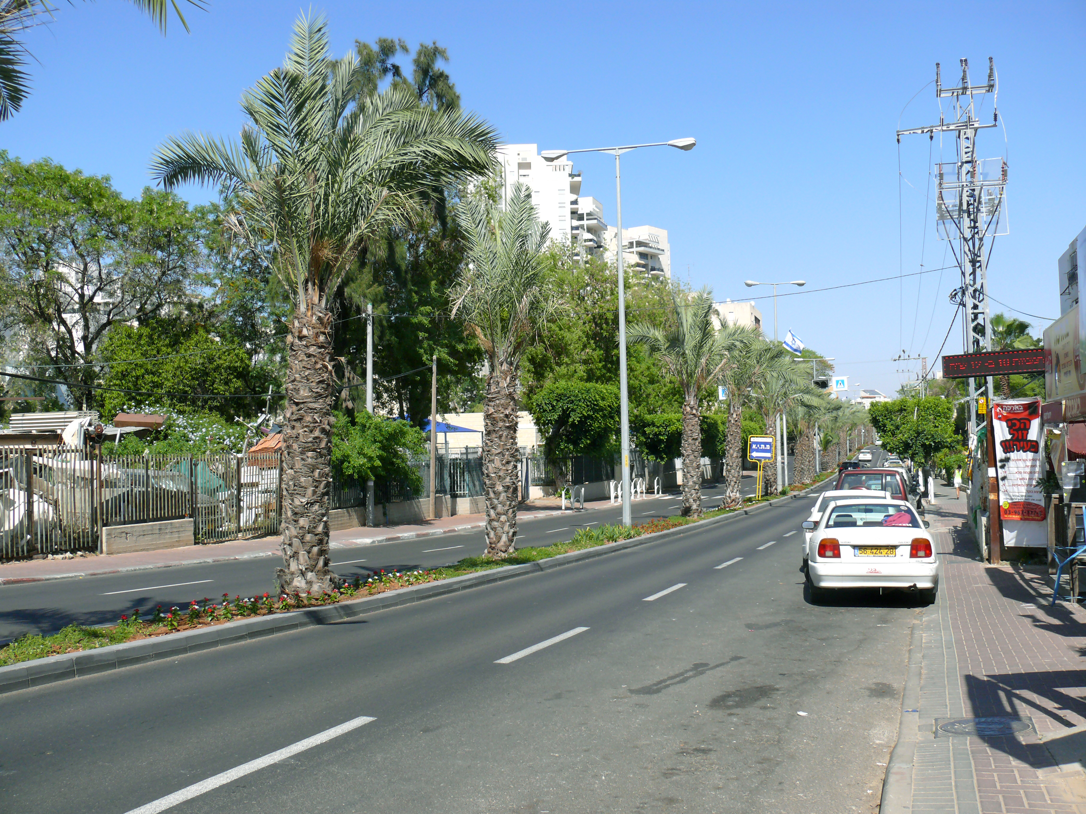 Jerusalem boulevards, Rishon LeZion, Israel